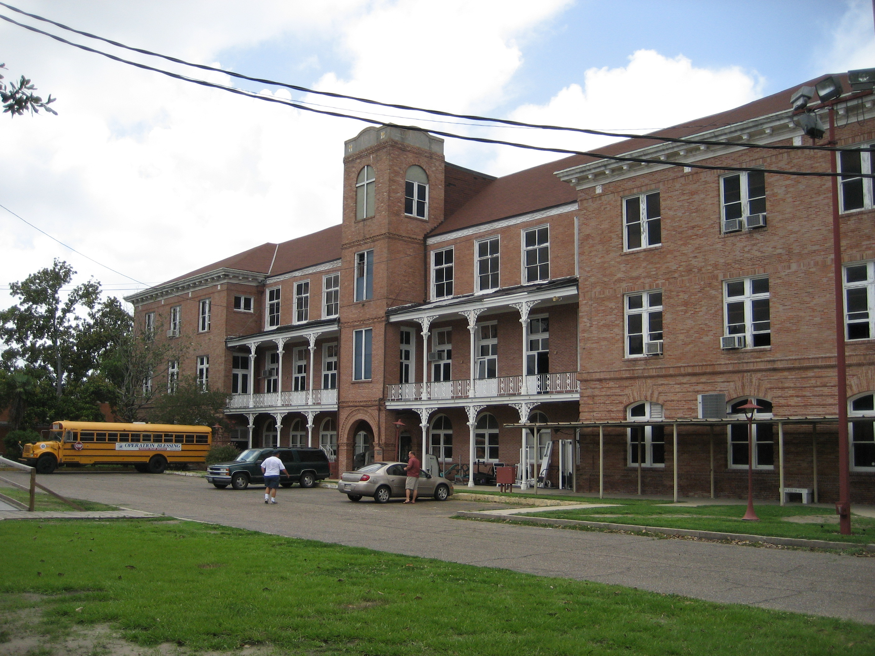 View of Holy Cross School campus, Lower 9th Ward, New Orleans